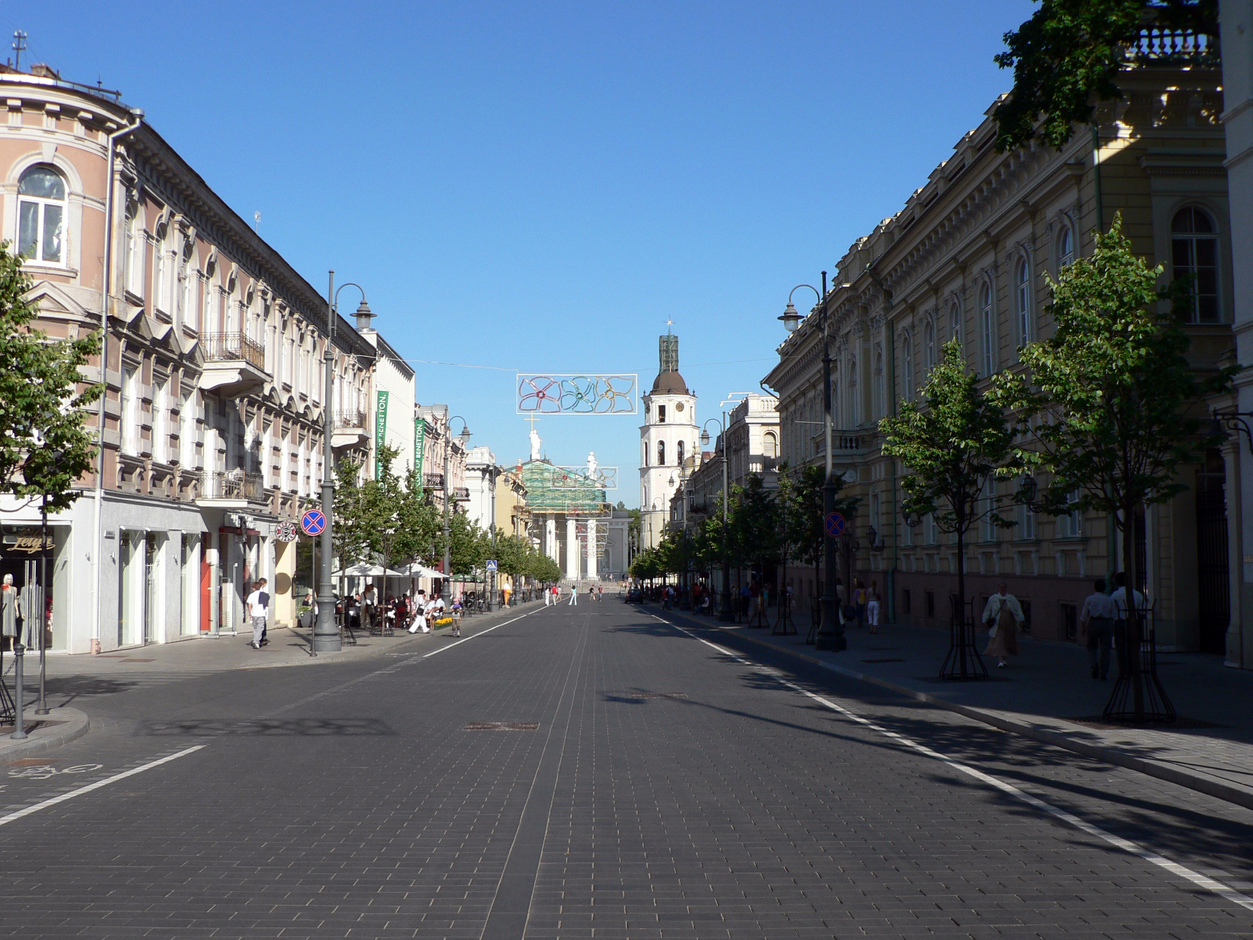 Gediminas Avenue, Vilnius, Lithuania